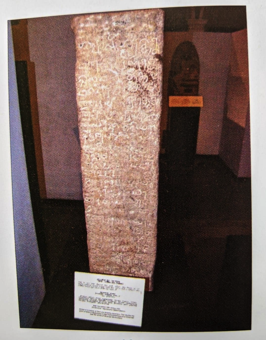 Rajendra tiruketiswaram inscription